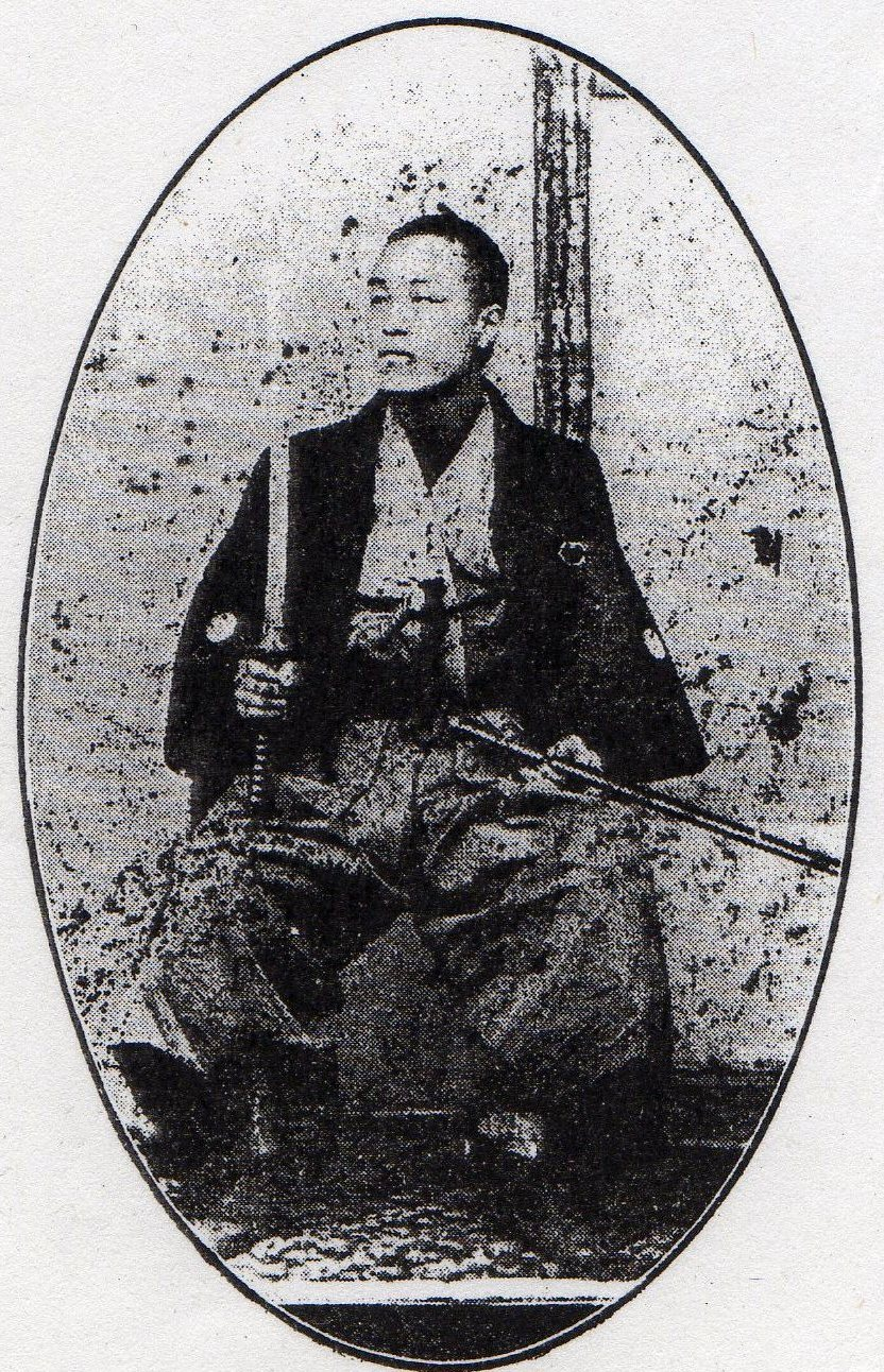 Machino Mondo is a samurai of Aizu domain